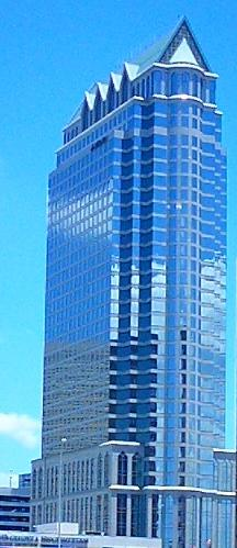 Cropped image of Tampa skyline to emphasize en:100 North Tampa